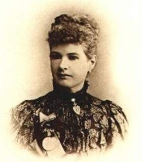 Anna Kingsford (1846–1888), one of the first women in Europe to obtain a medical degree. Well known anti-vivisectionist and women's rights campaigner.